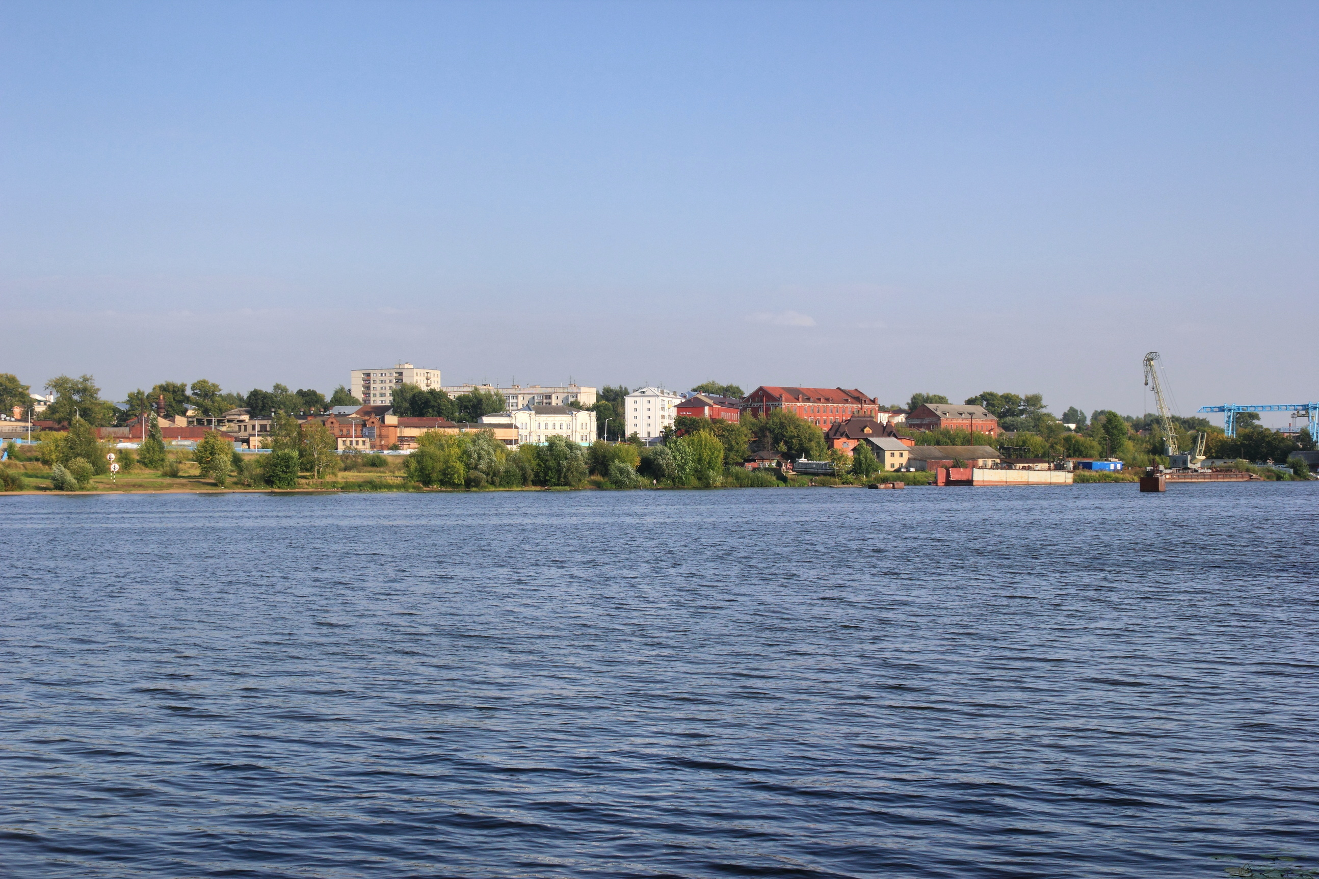 Kostroma. Kostroma River